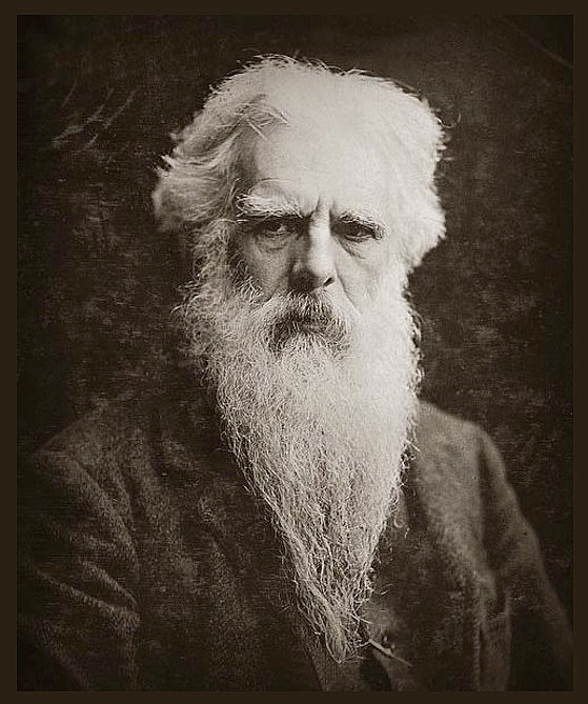 caption: "Fig. 411. Eadweard Muybridge, 1830-1904. (From Animals in Motion, 1899)."